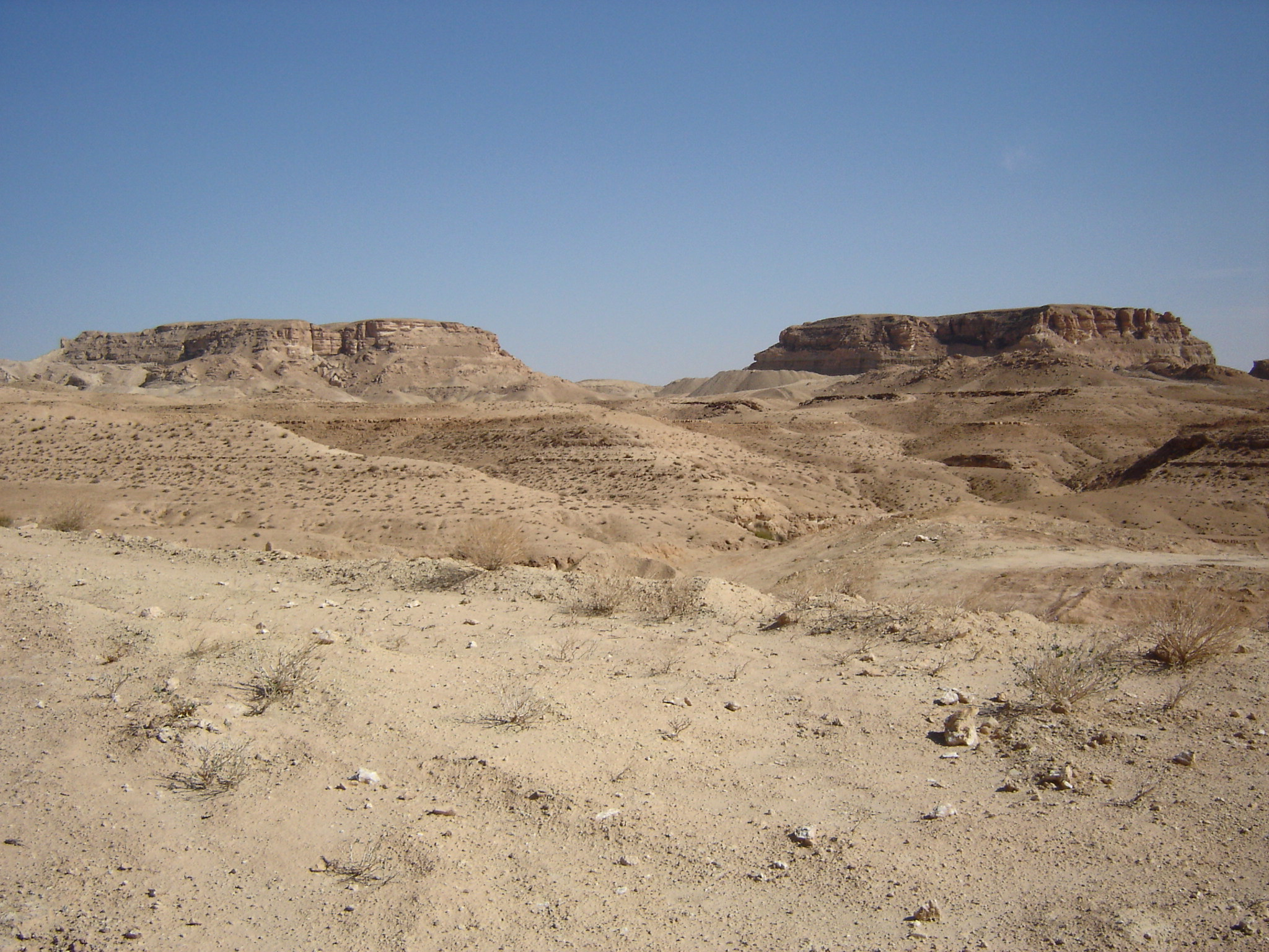 Landscape near Metlaoui, Tunisia Source: Self made, October 2004 Author: BishkekRocks